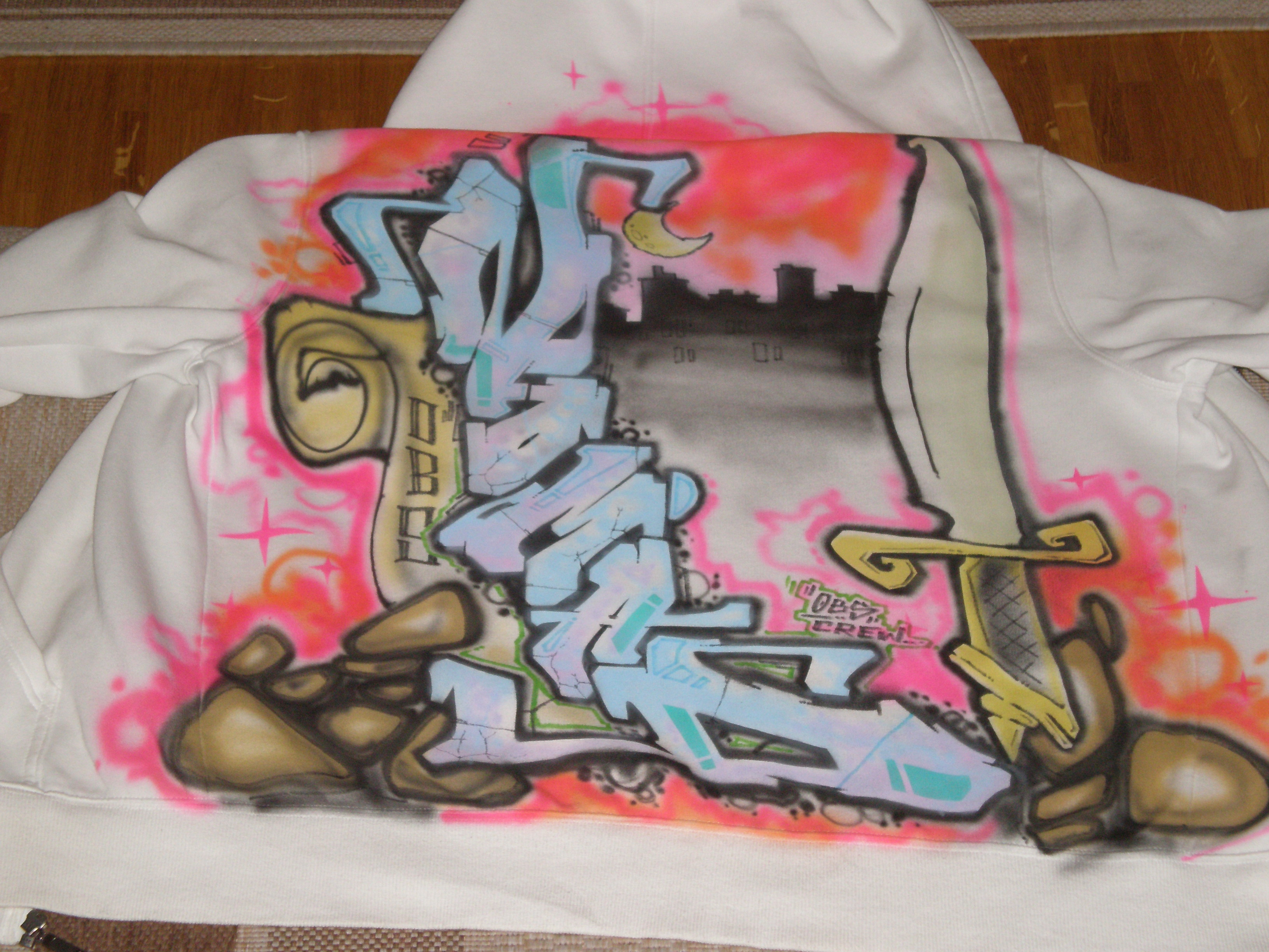 backpiece, hamburg, germany